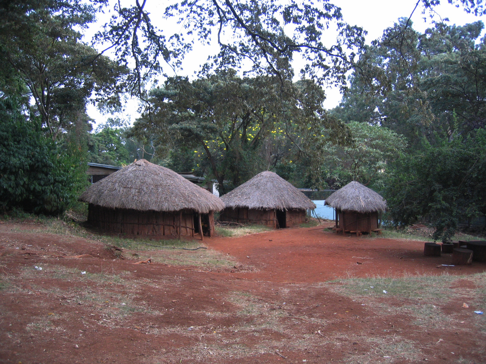 Nairobi Museum. Open air museum - village